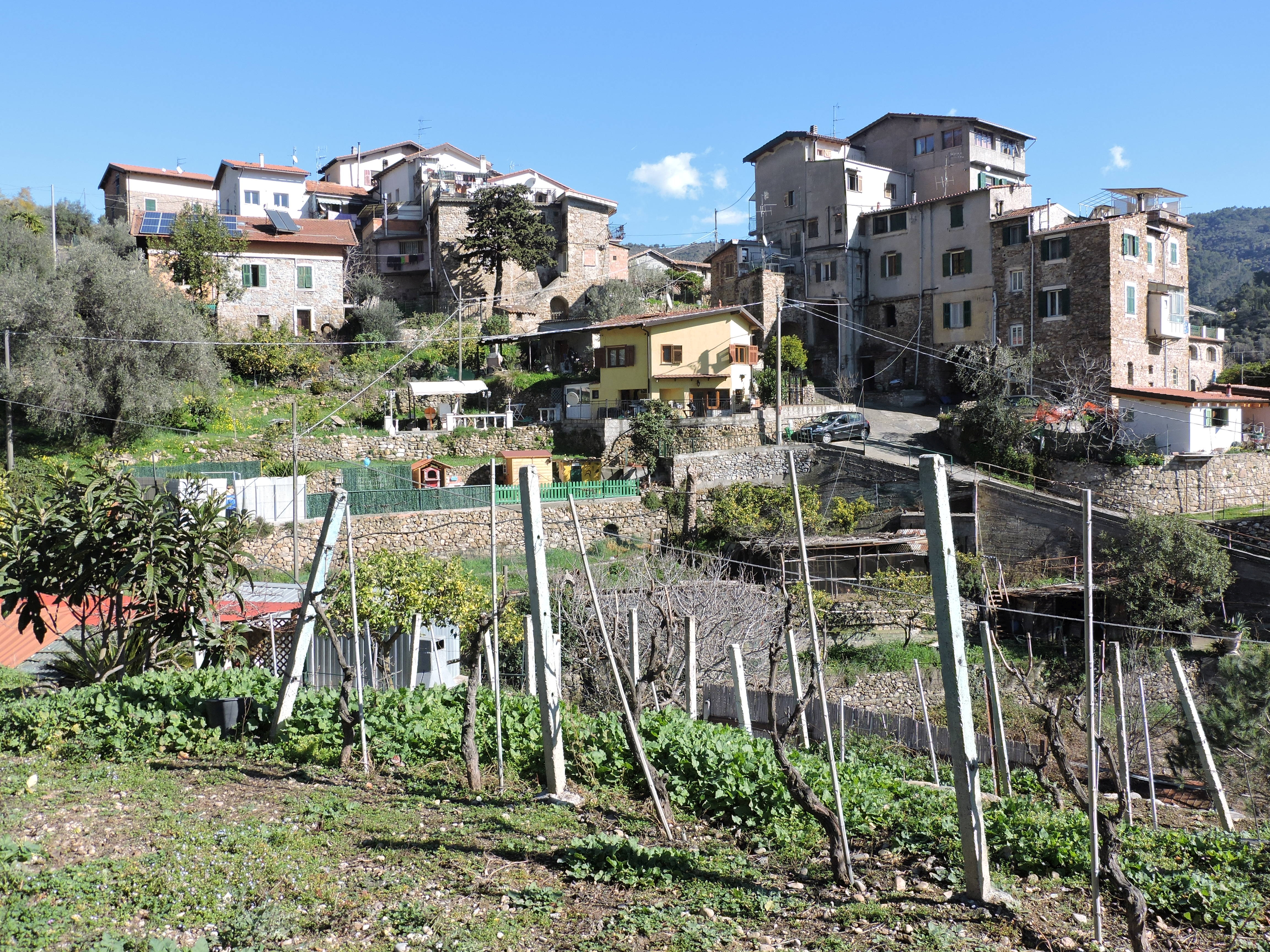 Varase (Ventimiglia, IM, Italy)